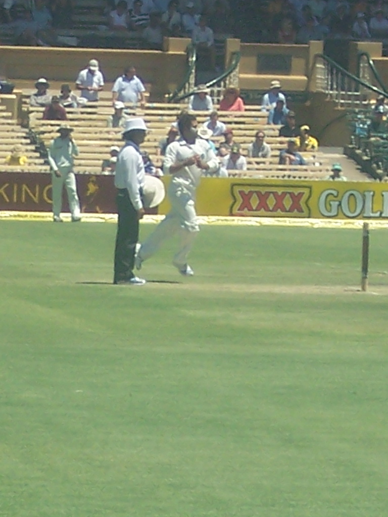 Sachin Tendulkar, Indian cricketer. 4 Test series vs Australia at Adelaide Oval